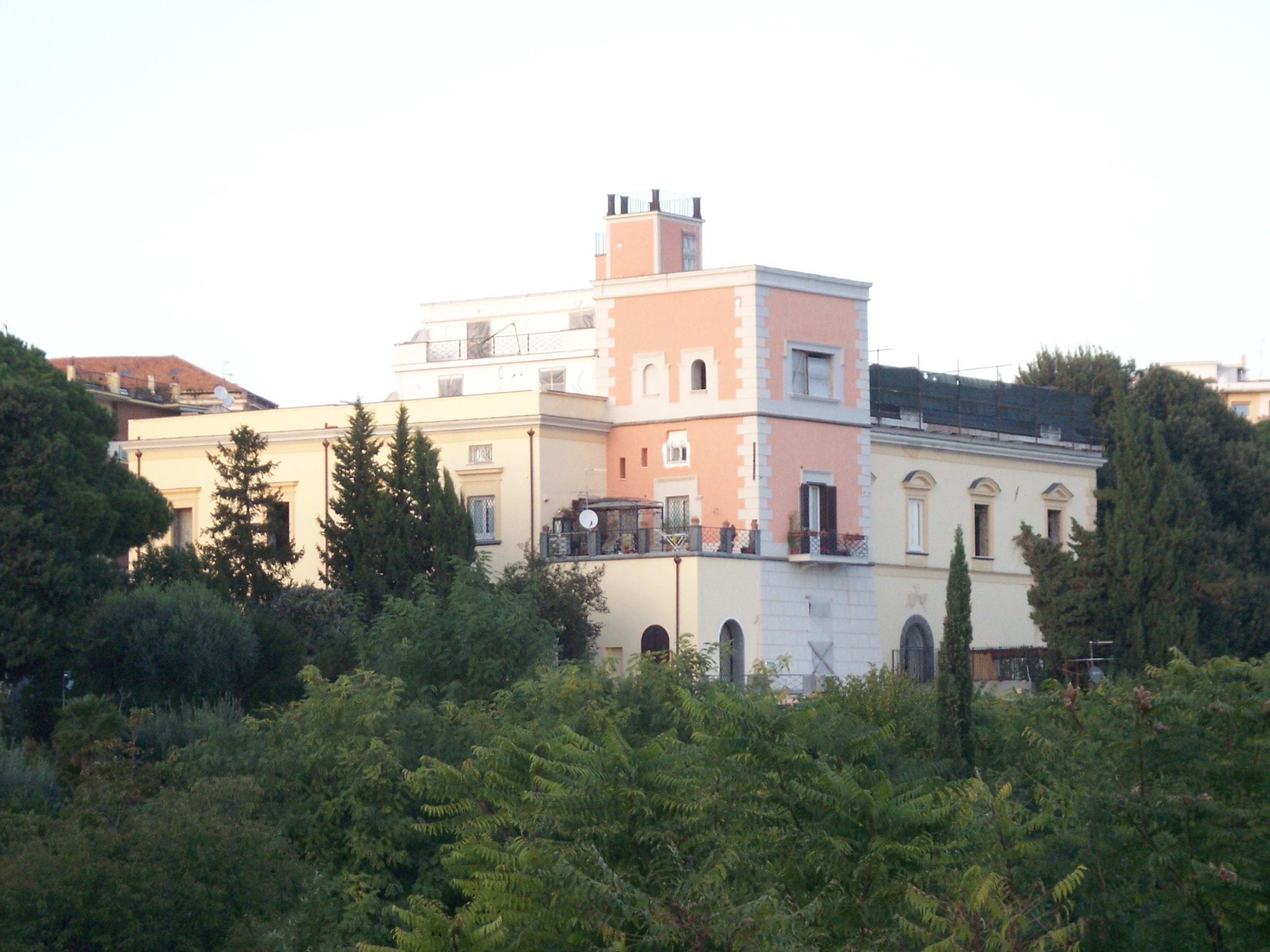 Villa Salve, in Naples, Vomero hill.